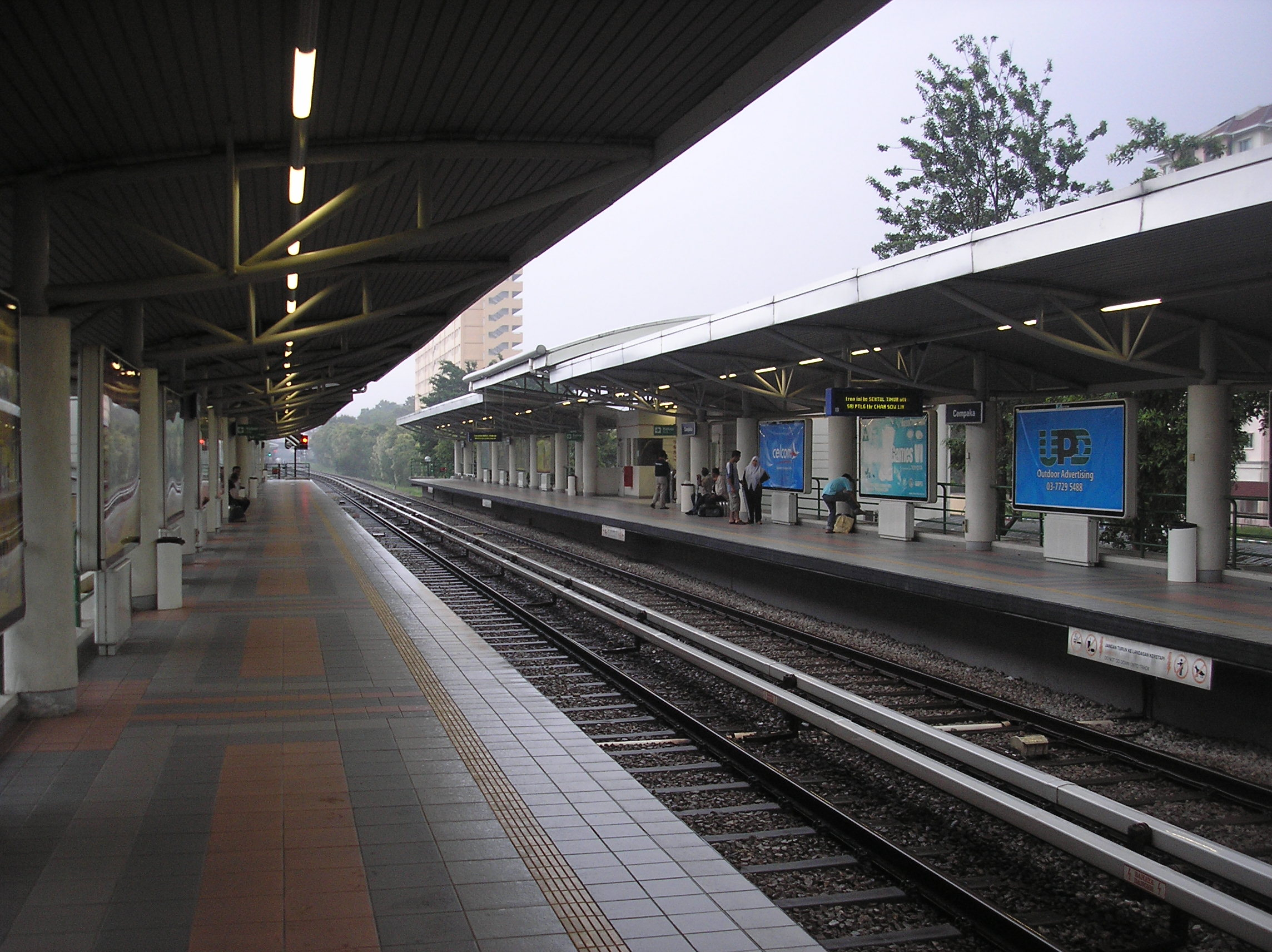 A platform view of the Cempaka LRT station (Ampang Line), Selangor, Malaysia.